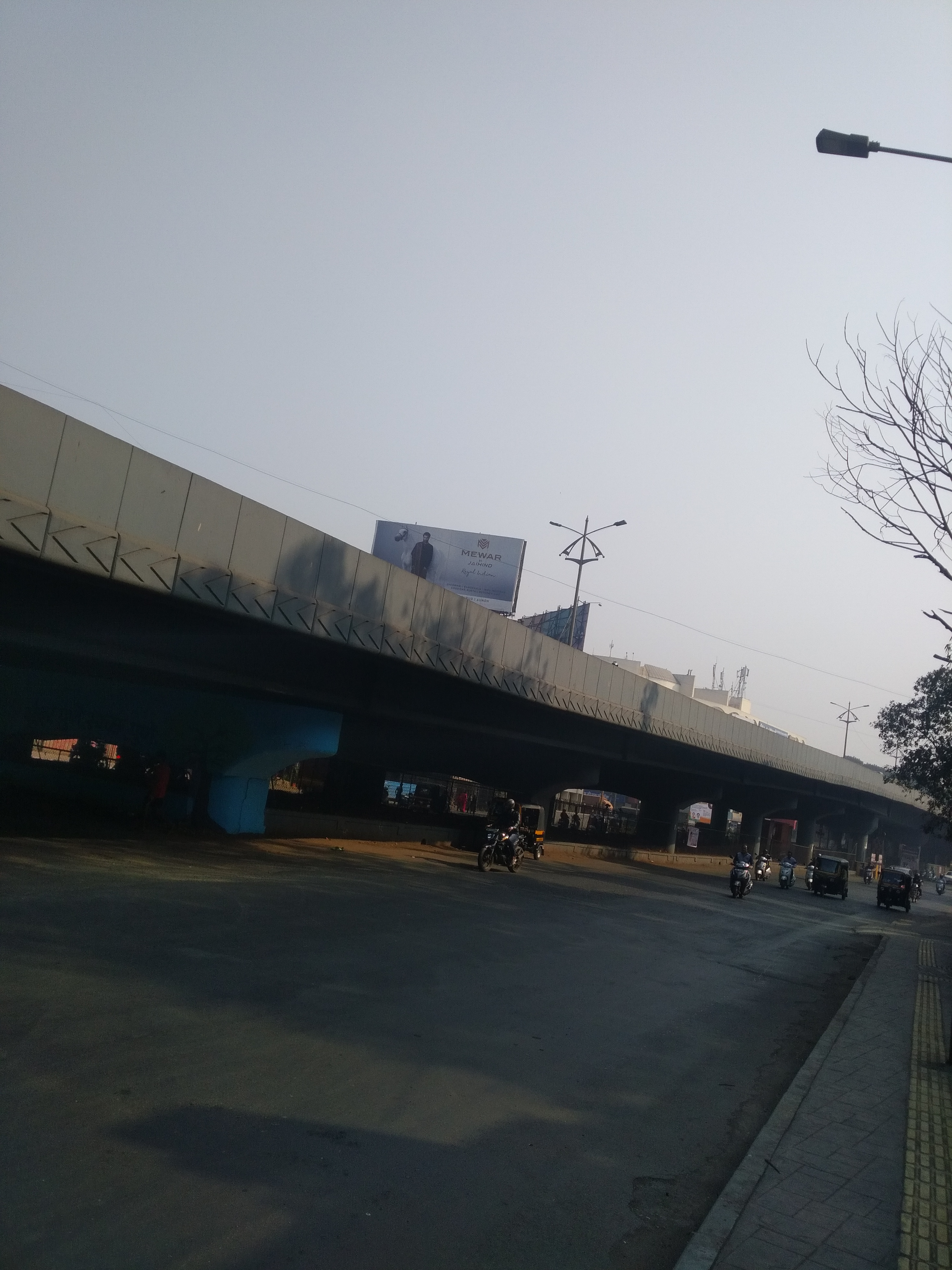 Side View of flyover